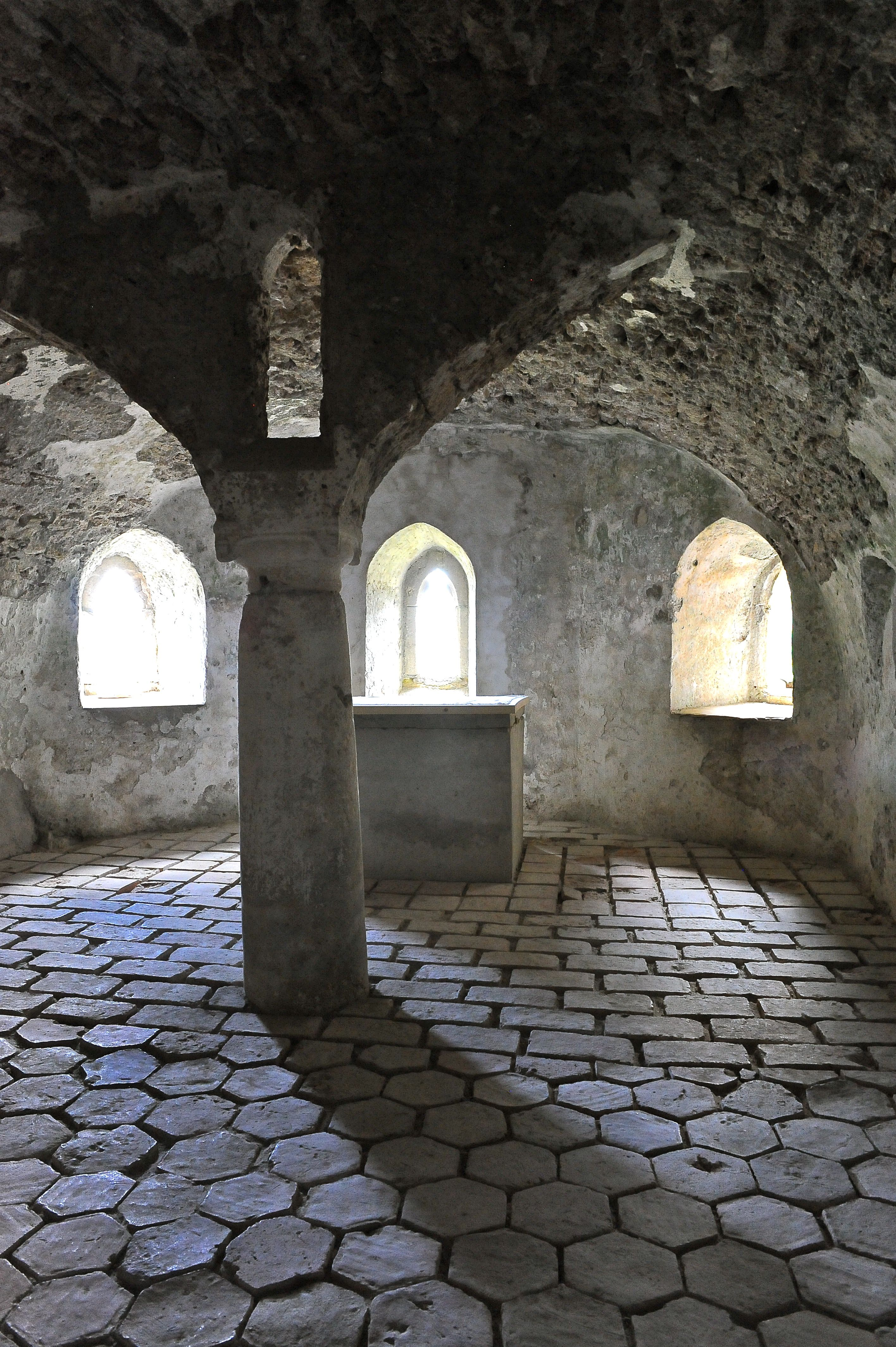 Crypt of the monastery church Saint George within the ruin in Arnoldstein, municipality Arnoldstein, district Villach Land, Carinthia / Austria / EU